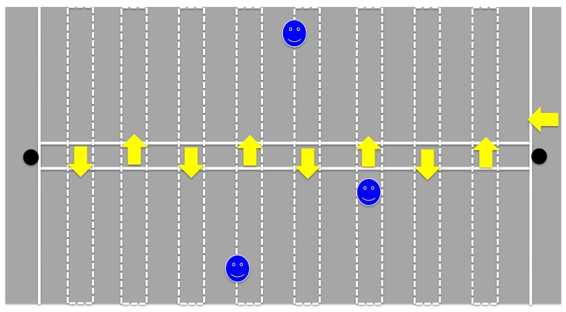 Schematic representation of a Kho-kho pitch (field). White lines are the markers, black circles are wooden poles (~ 4 feet tall), yellow arrows are chasing team members (facing as the arrow-heads are), smiley faces are the defenders (arrive in batches of 3).